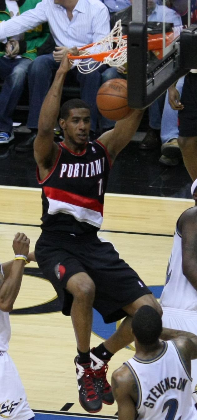 LaMarcus Aldridge playing with the Portland Trail Blazers